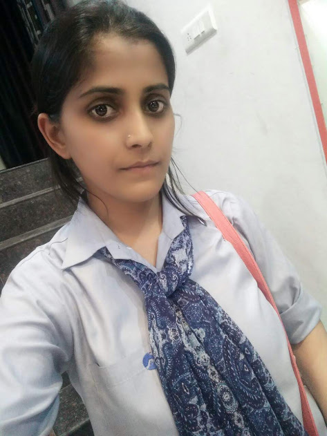 I am self-confident, positive attitude and patience